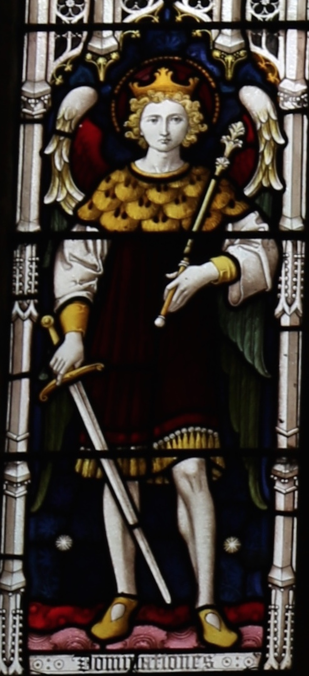 Angelic figure represents the Dominions, west window of the Church of St Michael and All Angels, Somerton, Somerset, England.